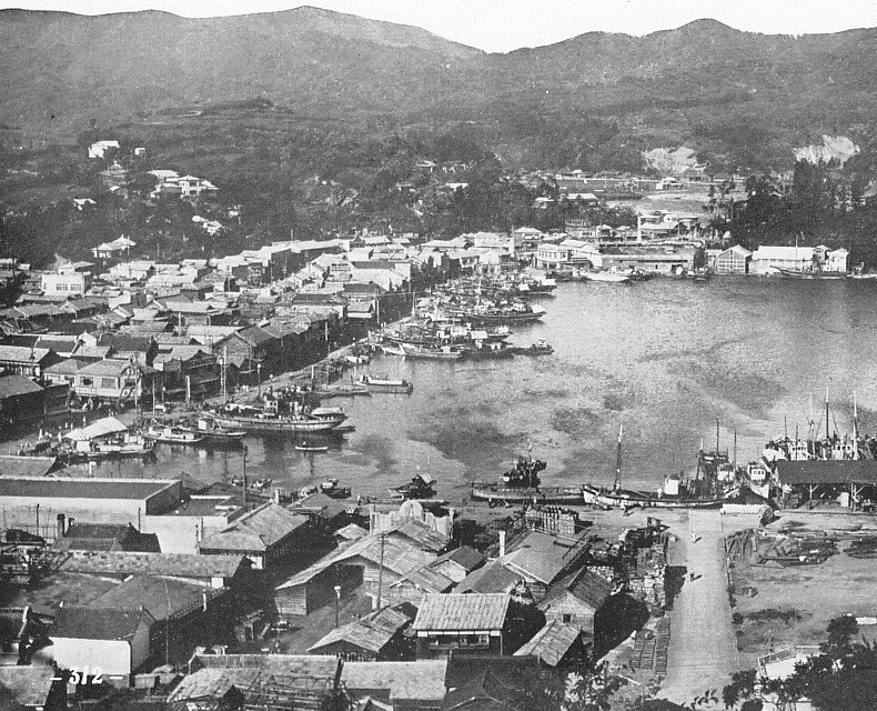 Kesennuma in 1930s